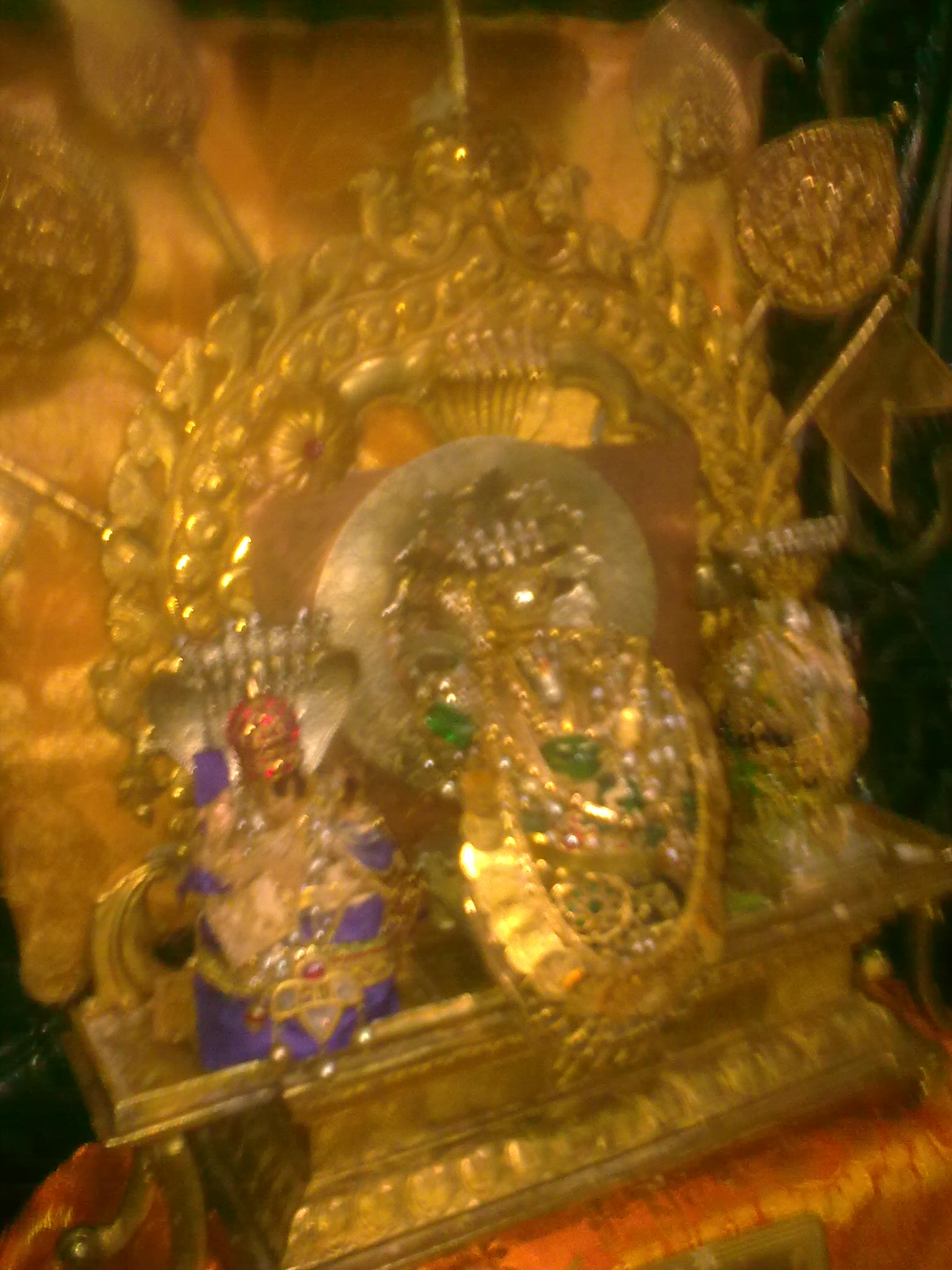 The presiding diety of Sri Parakala Mutt: Lord Sri Lakshmi Hayagreeva Swami (at the centre)